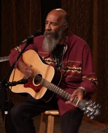 1-Singer Richie Havens in 2006